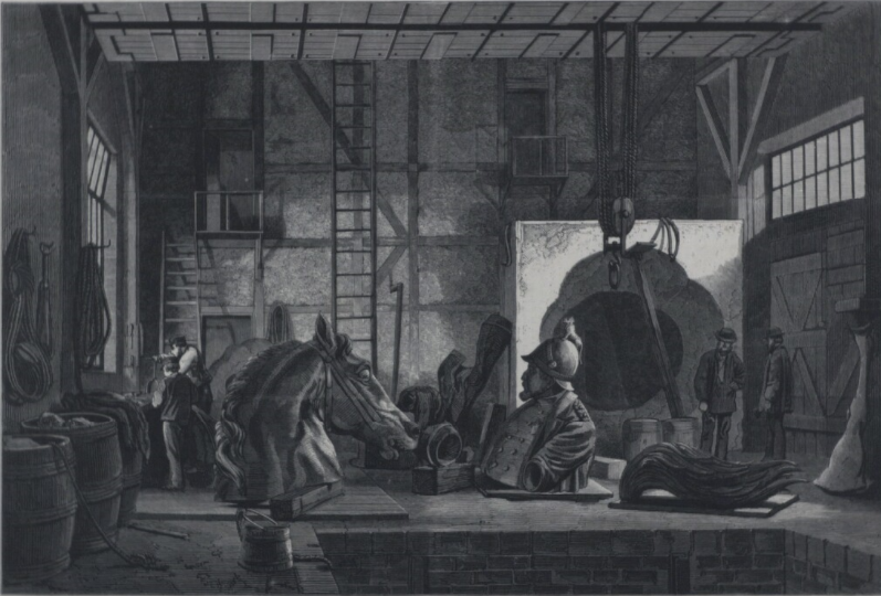 Billedhugger V. Bissens Atelier med Dele af Kong Frederik VII's Rytterstøtte i Bronze. Tegnet af B. Olsen